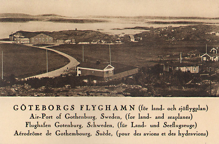 Gothenburg Airport 1923